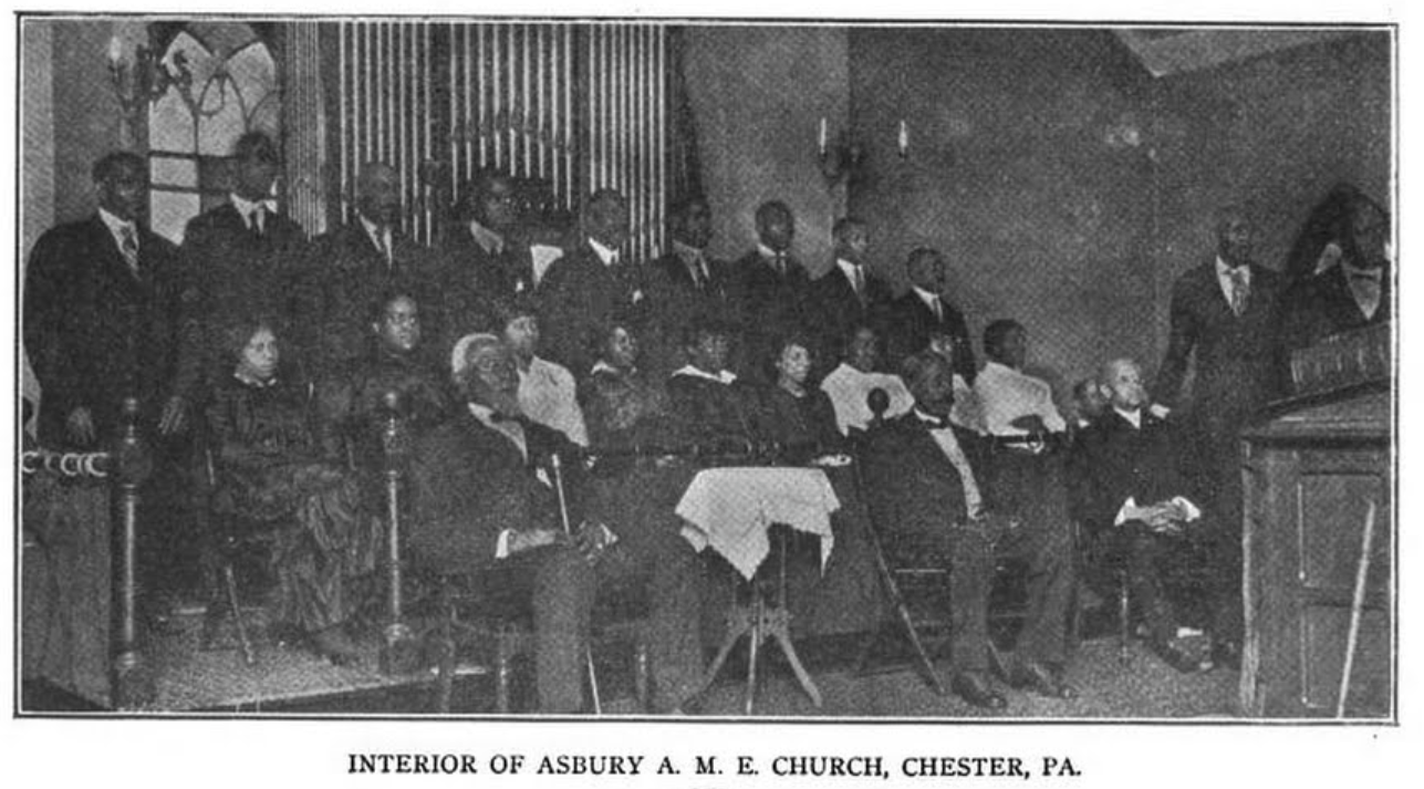 Image from Centennial Encyclopedia of the African Methodist Episcopal Church, Volume 1 by John Russell Hawkins. Published in 1916